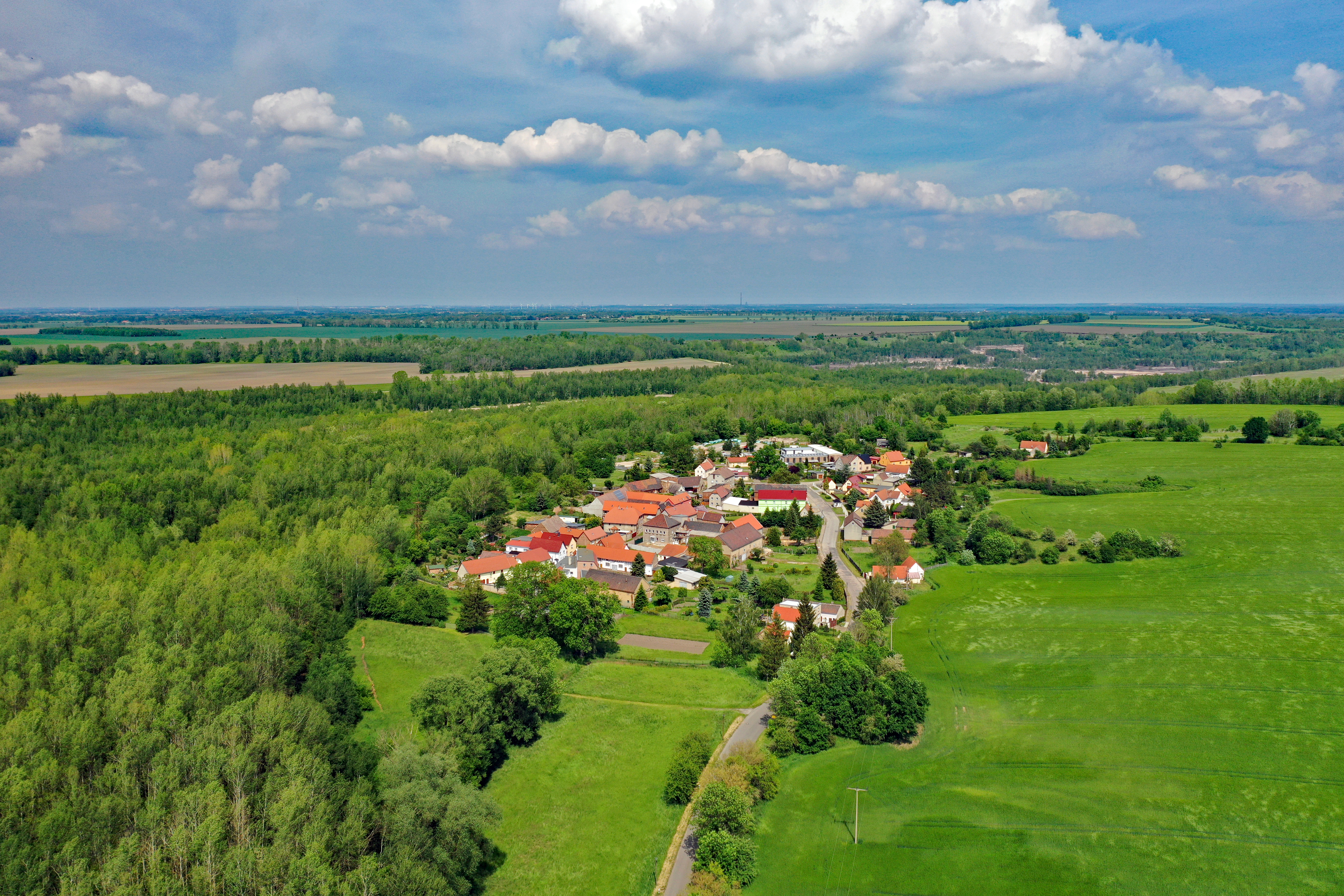 Tornau (Lützen, Saxony-Anhalt, Germany)